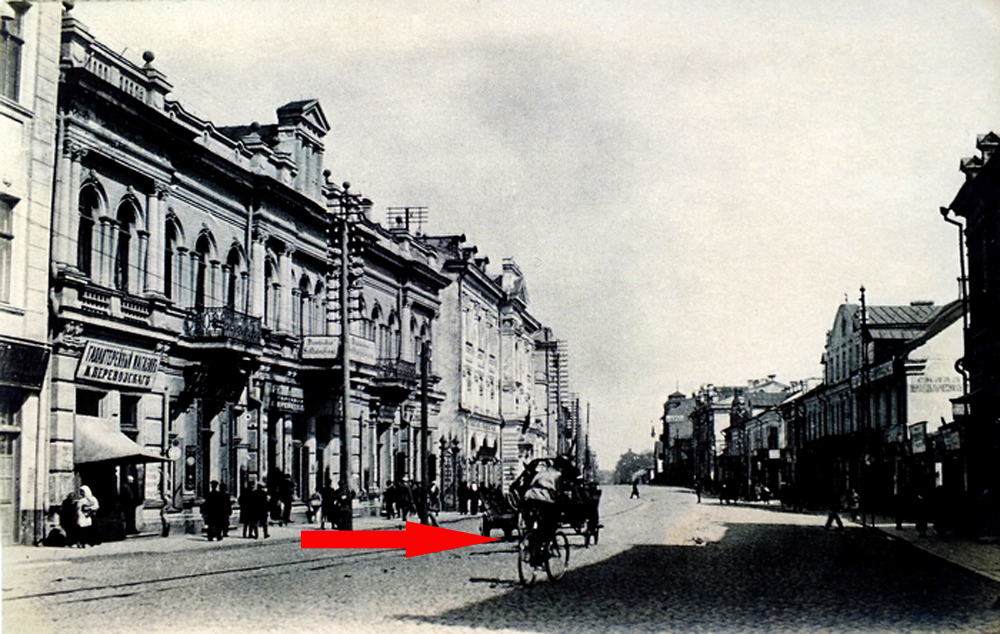 Cyclist in Russian Empire, Minsk